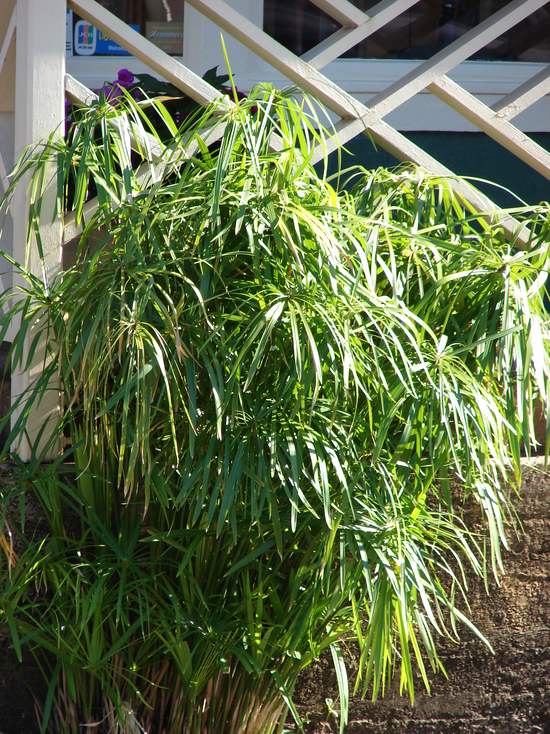 Cyperus involucratus (habit). Location: Maui, Makawao